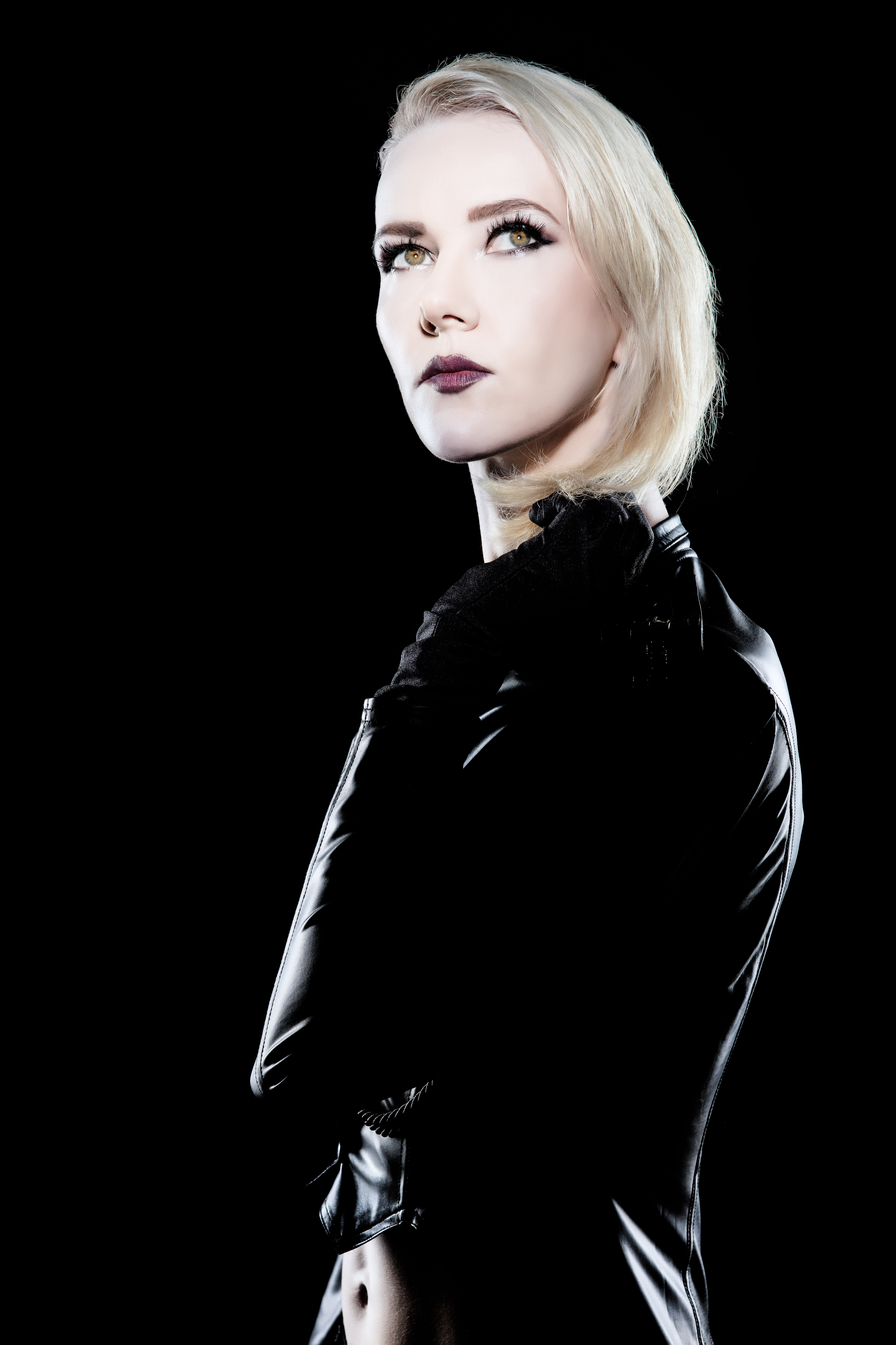 Musician Monica Jeffries